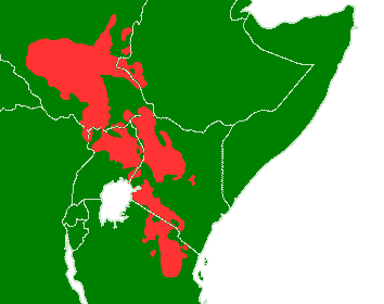 Nilotic languages (in frame)